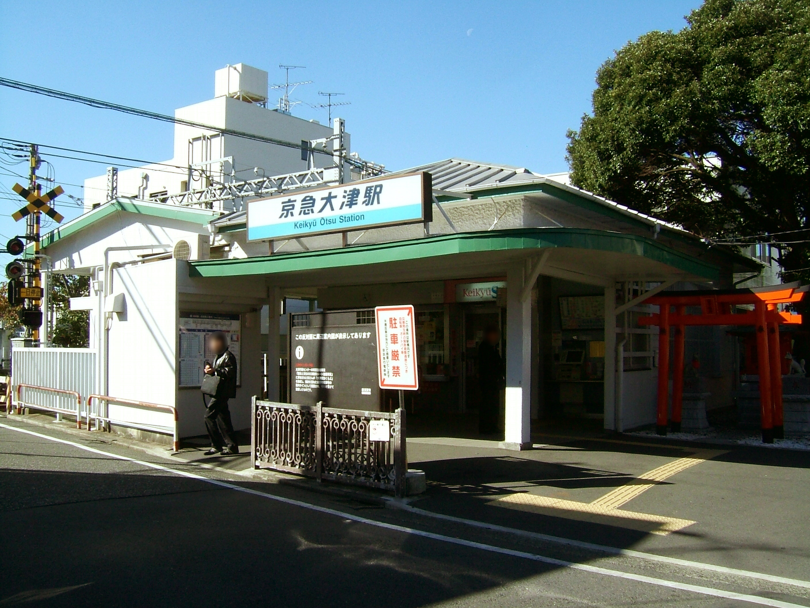 Keikyū Ōtsu Station entrance (Keihin Electric Express Railway Main Line)